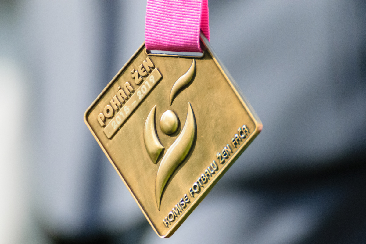 Winners medal of Czech women's cup